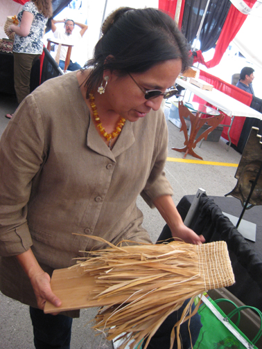 Martha Gradolf, contemporary Ho-Chunk weaver, displayed a rush pouch in progress.